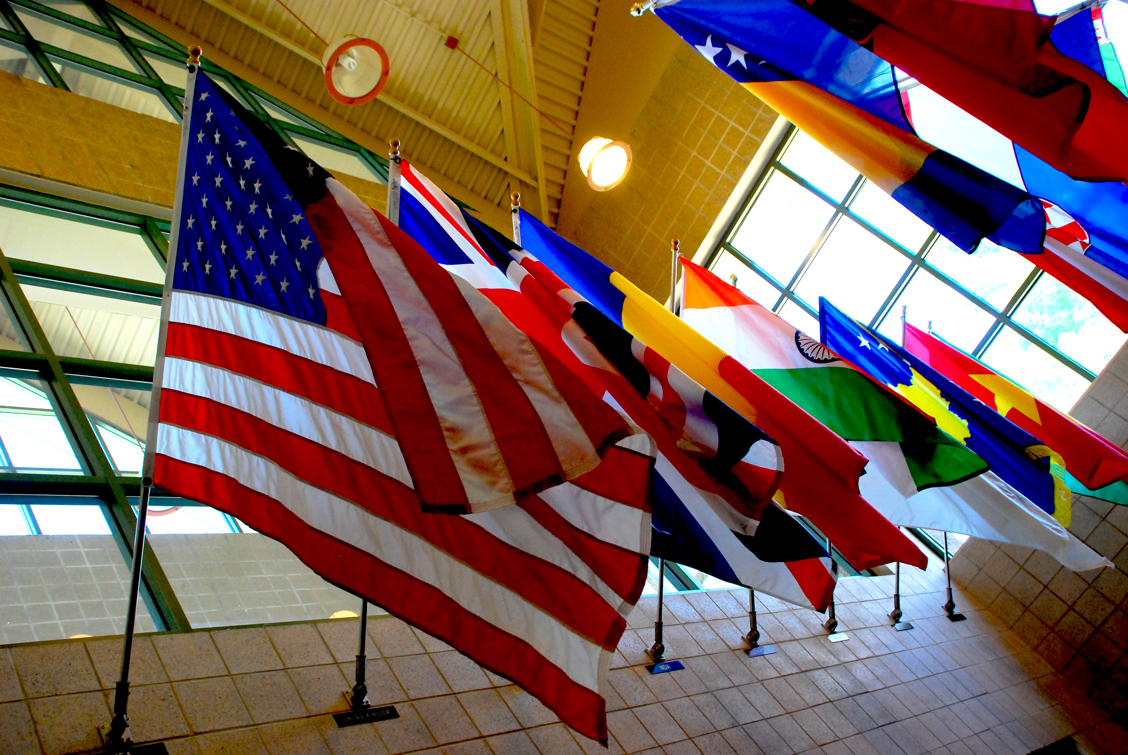 Westminster College diversity in student body